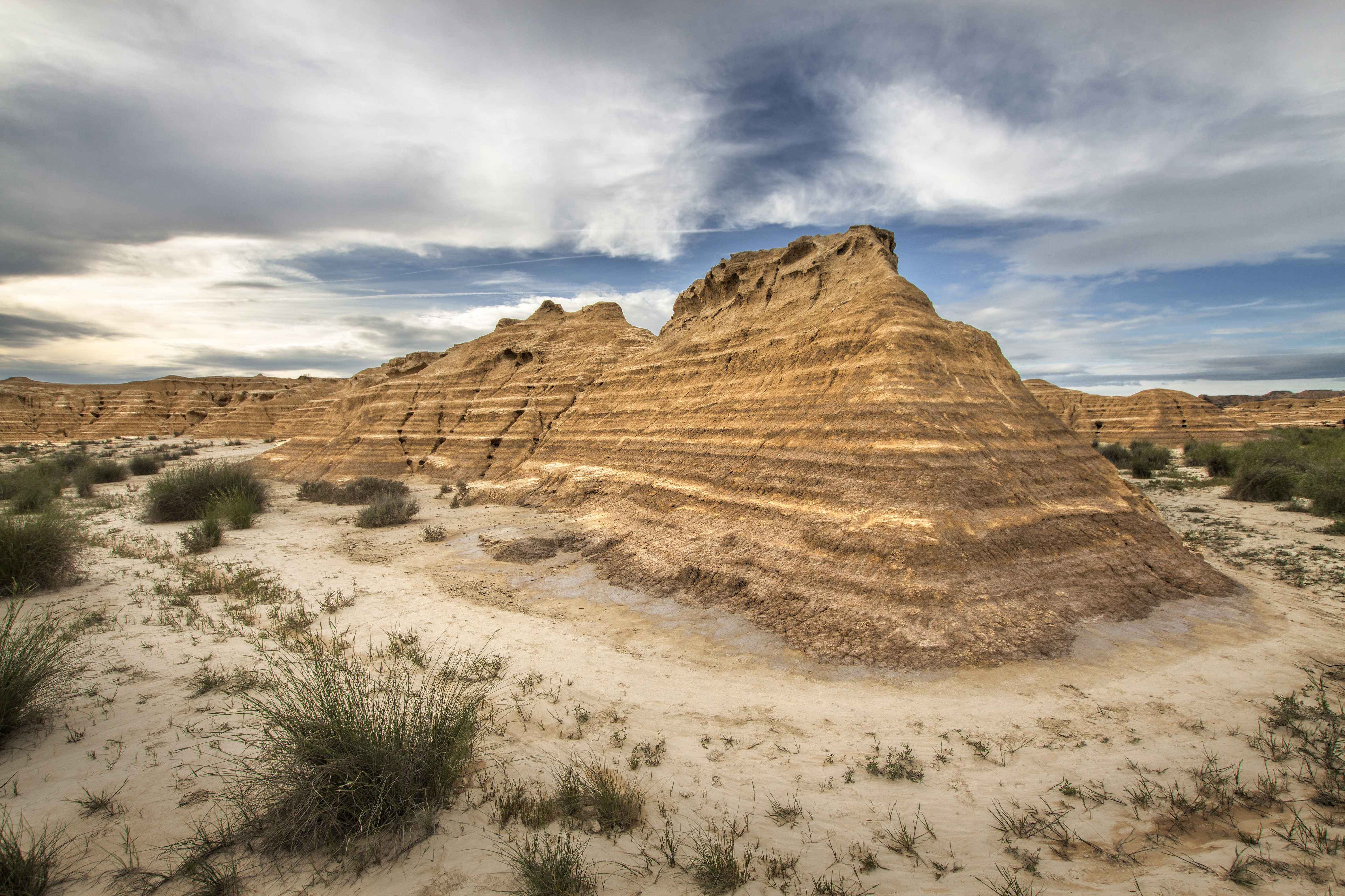 Bardenas Reales, Navarre, Spain. This is a photography of a Site of Community Importance in Spain with the ID: ES2200037. Natura2000 entry, EEA entry